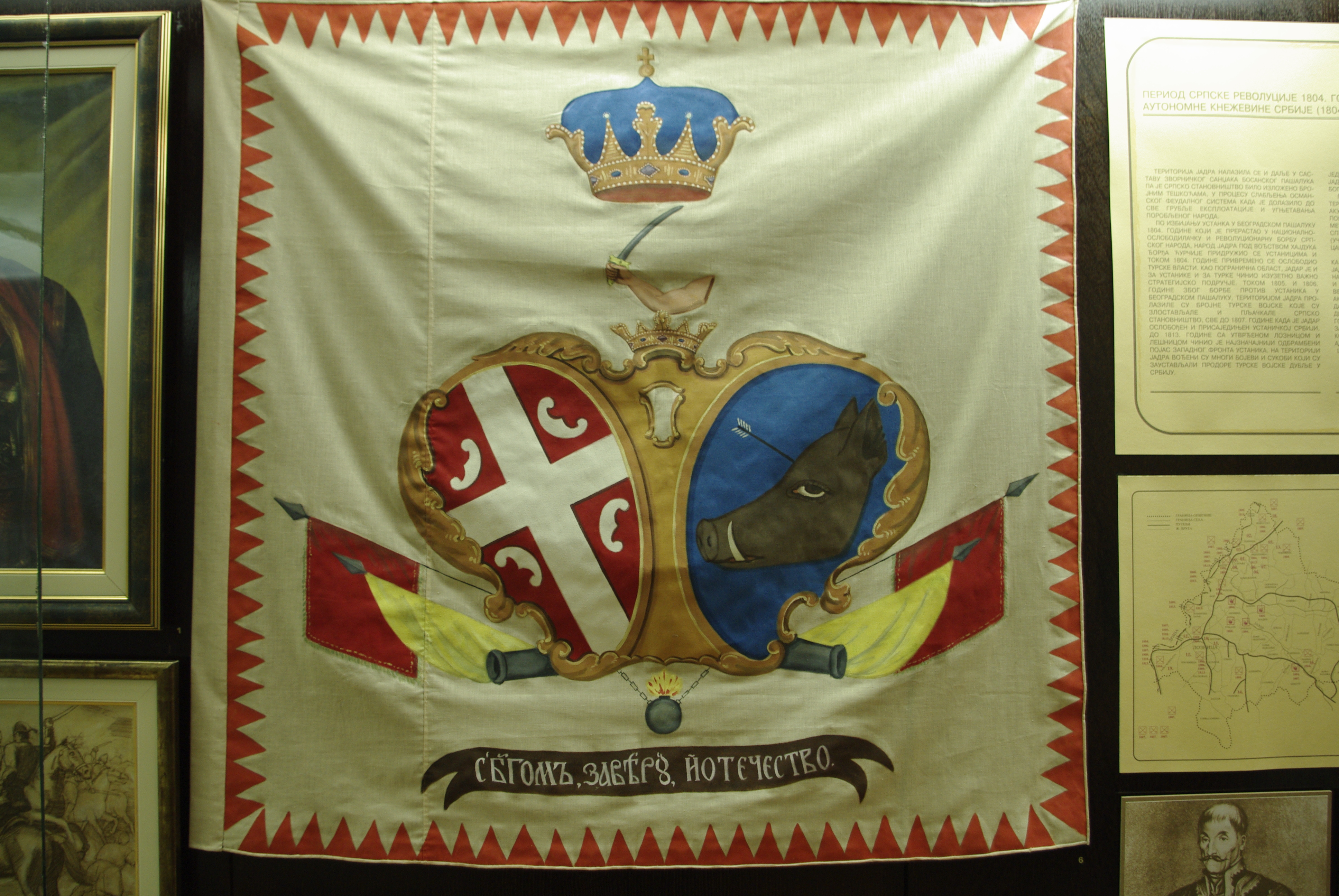 Replica of a flag of the First Serbian Uprising 1804–1813, at the Museum of Jadar, Loznica, Serbia.